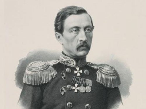 Russian Admiral Pavel Pereleshin, hero of Battle of Sinop and Siege of Sevastopol